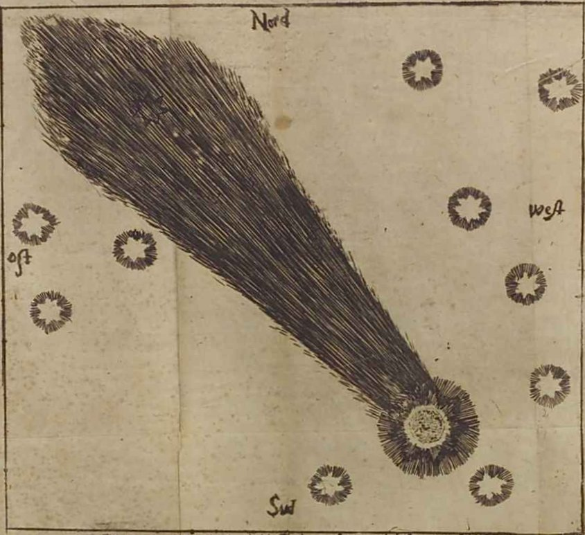 Depiction of the comet of 1664